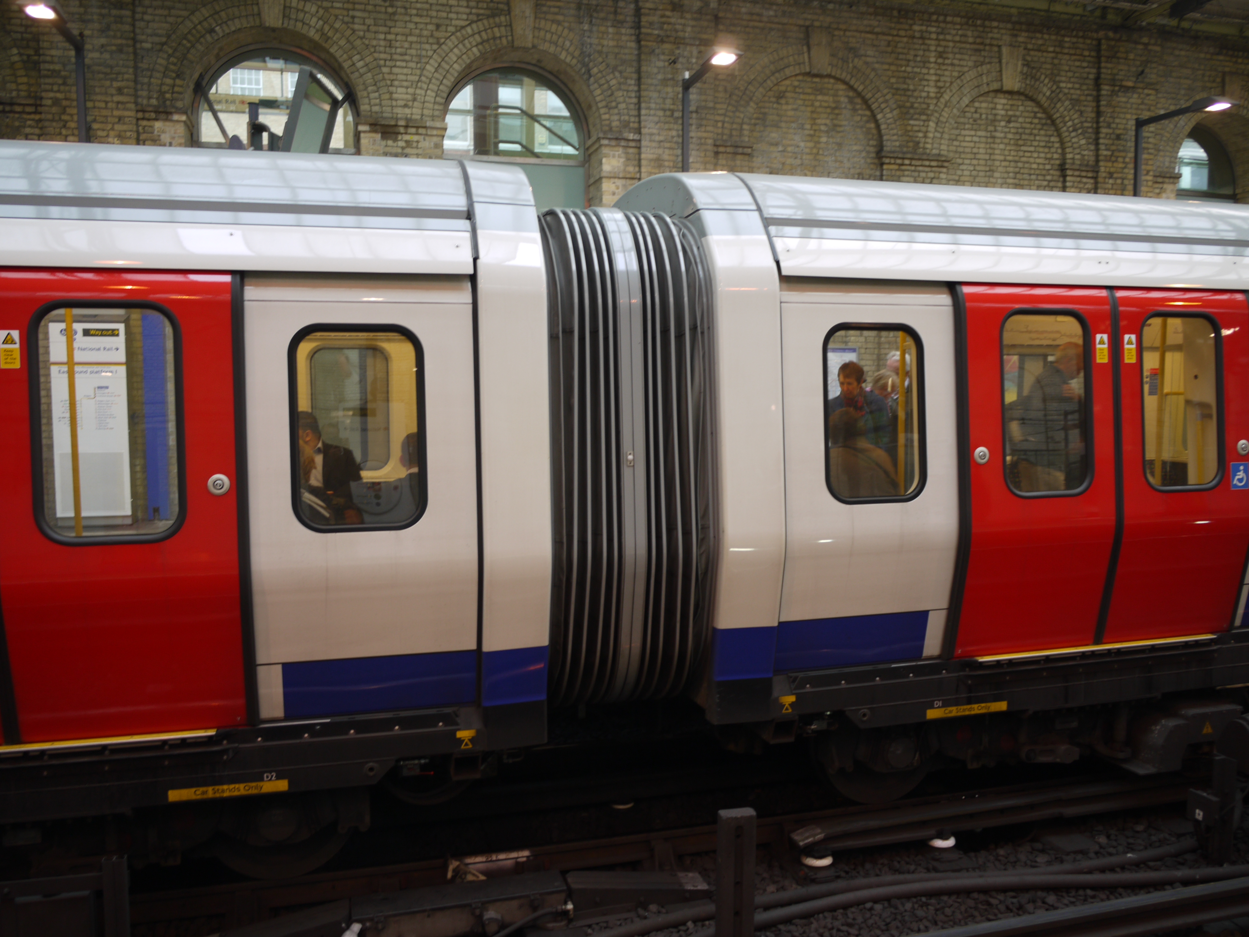 Gangway connection between London Underground S stock carriages